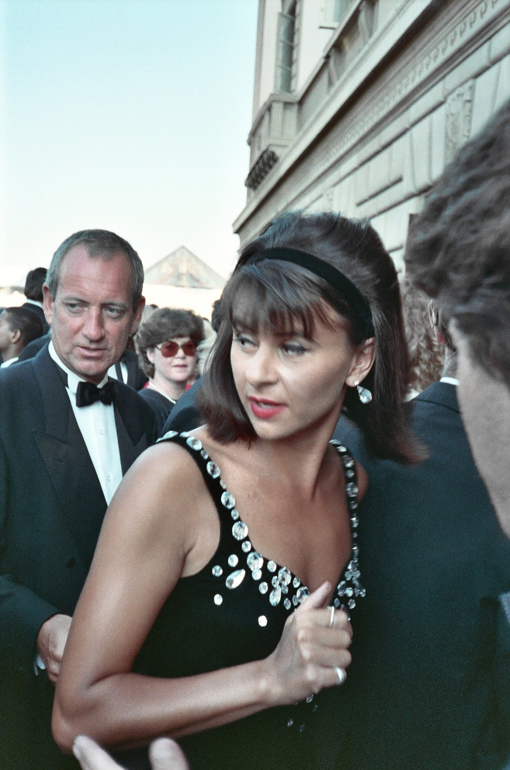 Tracey Ullman, 1990 Emmy Awards.